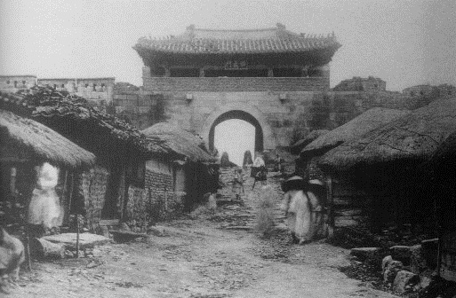 Historical image of Souimun Gate, also known as Southwest Gate, or Seosomun. Image taken in Seoul, South Korea before 1914, when gate was destroyed. Image believed to have been taken in 1880.